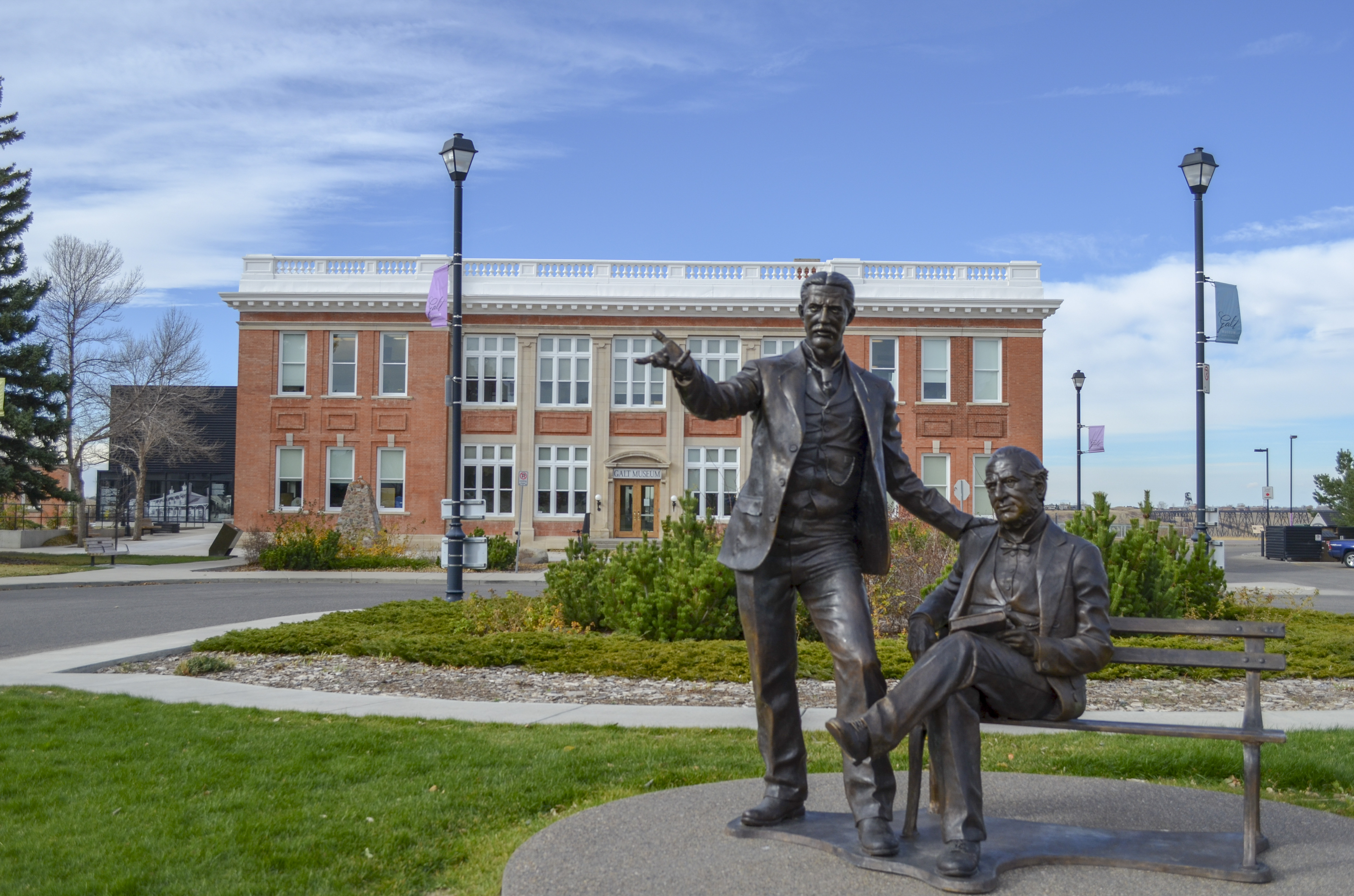 A statue of Sir Alexander and Sir Elliot Galt in front of the 1910 Galt Hospital building which has housed the Galt Museum & Archives since 1963. The statues were installed in September 2017 by the the Galt Museum & Archives.